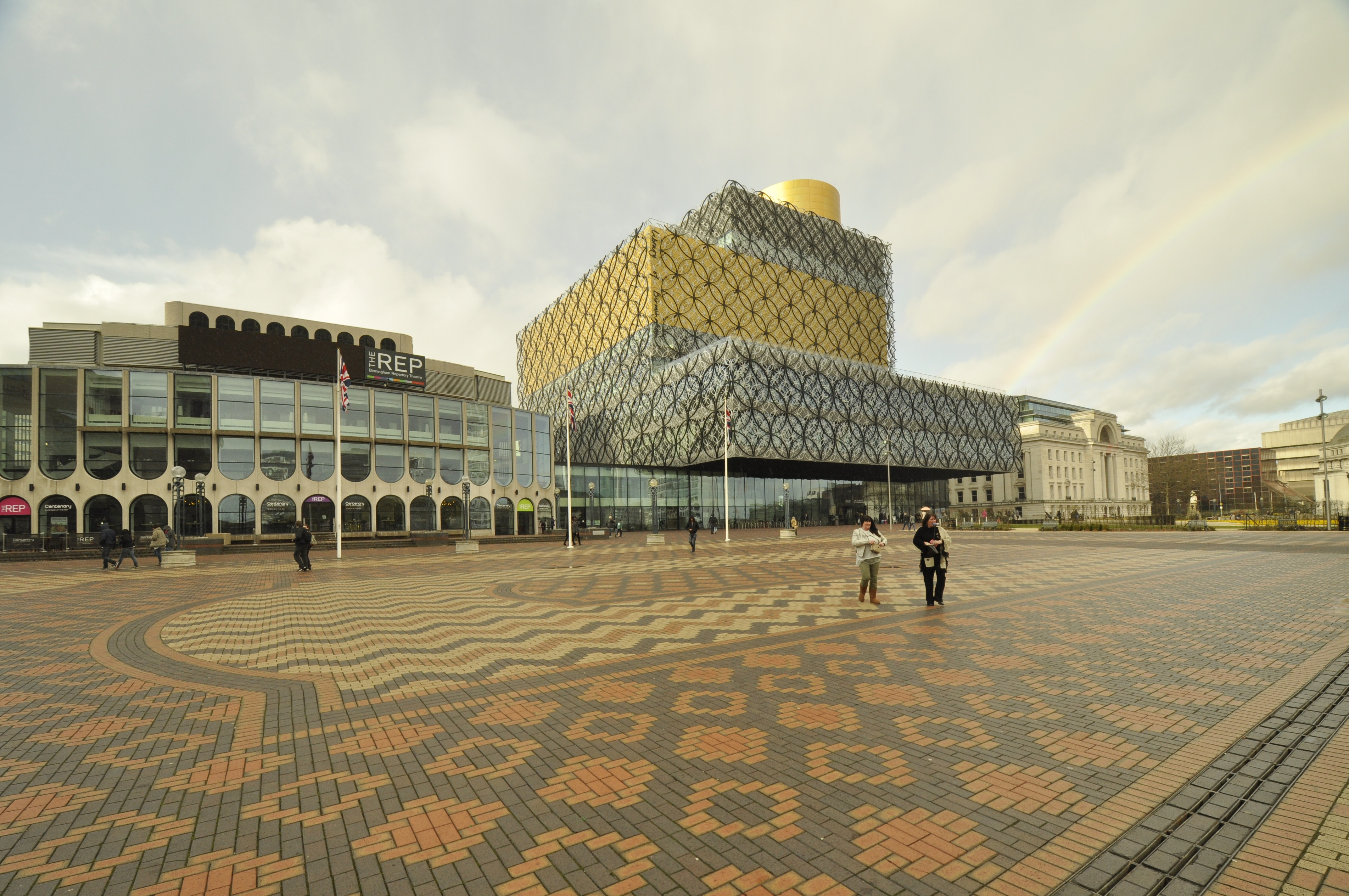 Birmingham Rep and the Library of Birmingham on Centenary Square